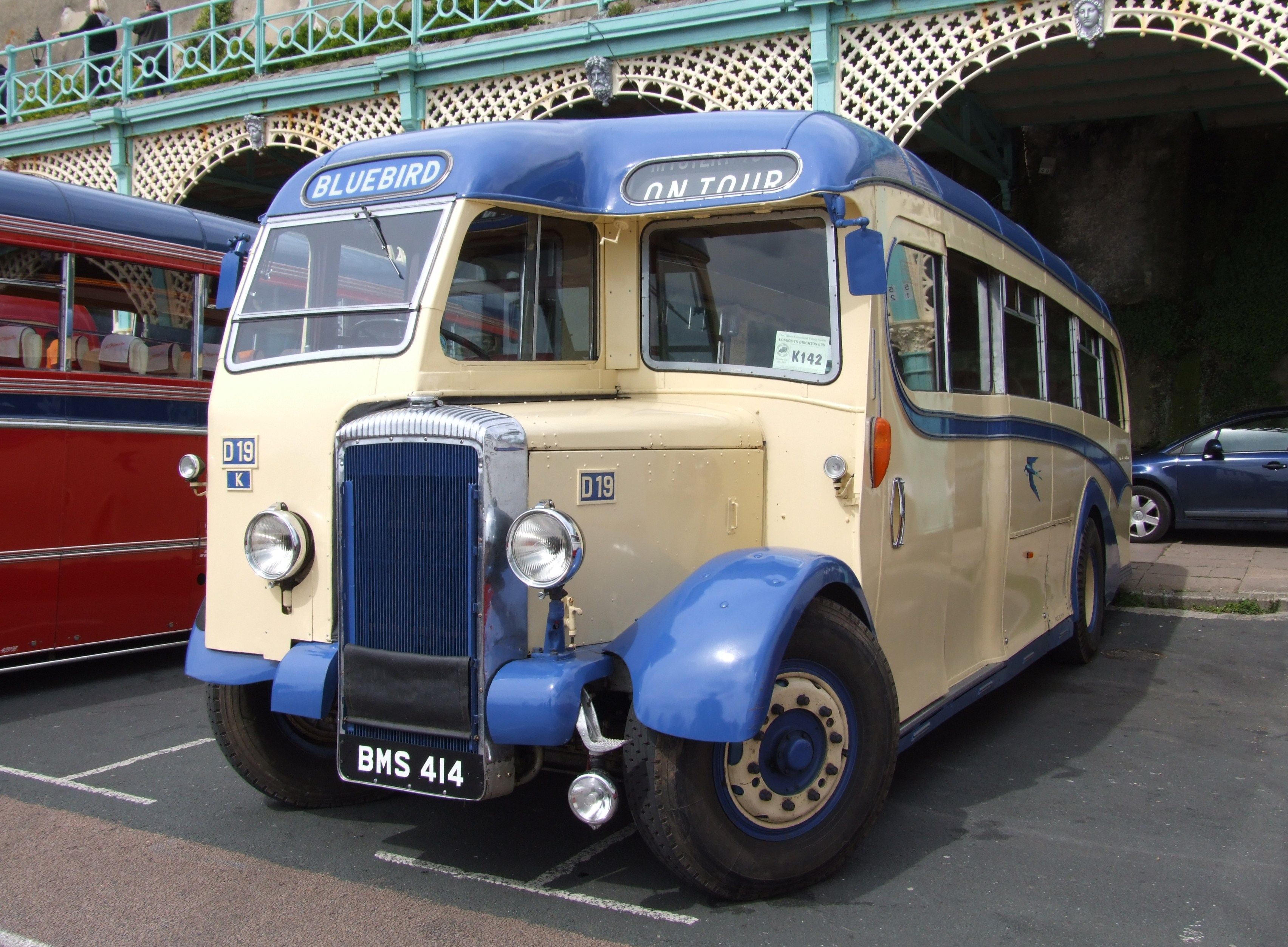 A Daimler CVD6 Coach in this case. Thanks to jeffiresmike 11 for the info. (DVLA) 8600cc Heavy Oil year of manufacture 1948 This photo was taken on May 3, 2009 using a Fujifilm FinePix S9500.